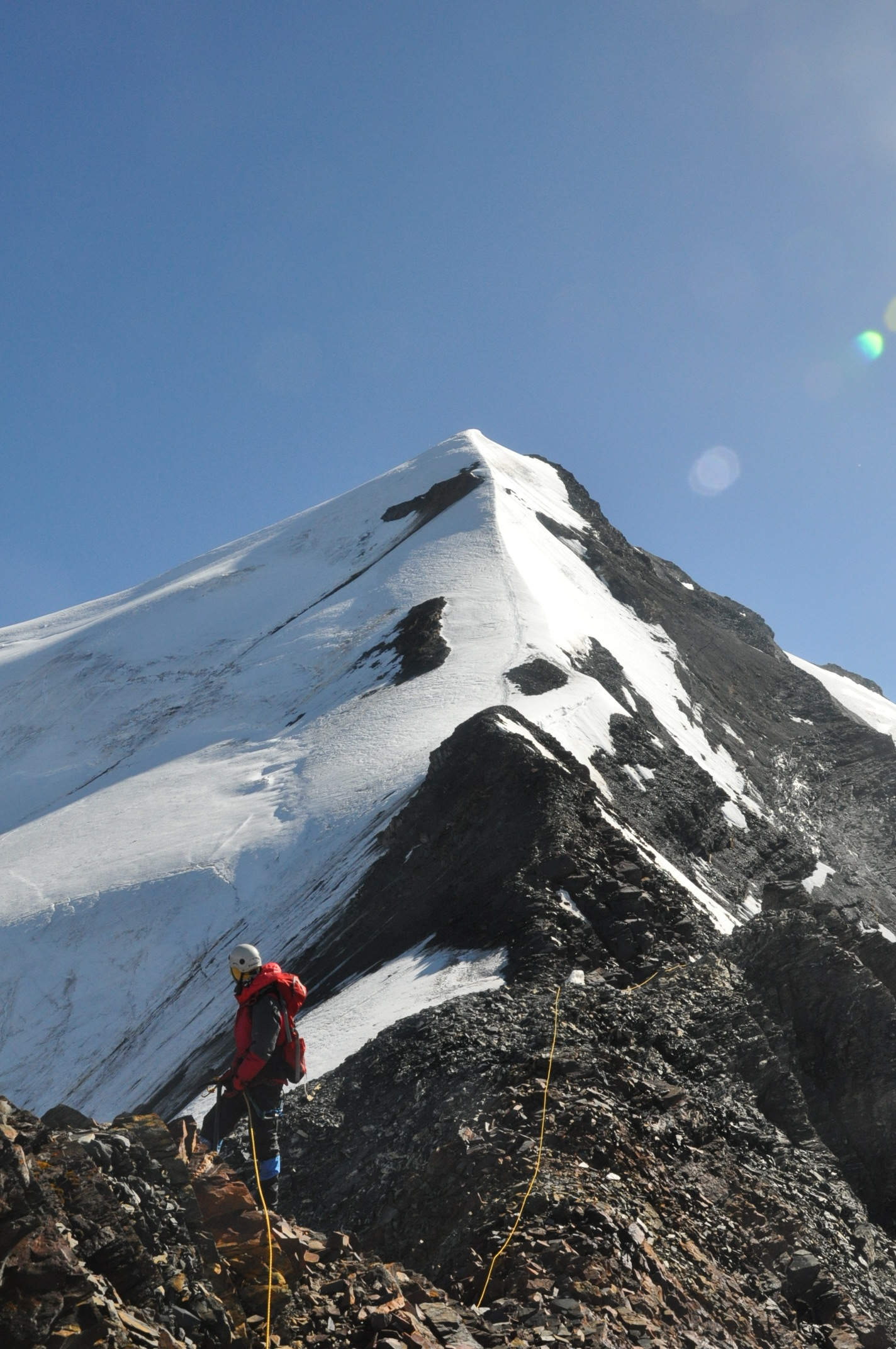 The summit of Mount Xuebaoding（5588m） in China